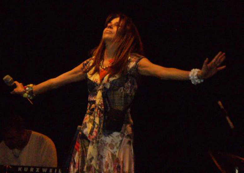 Jeanette singing in Arequipa, 18/06/2011